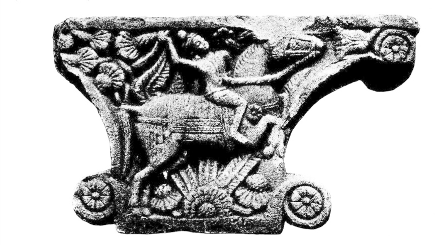 Capital from Sarnath, Mauryan period; Front and back of the capital. Reconstitution of the full pillar capital.